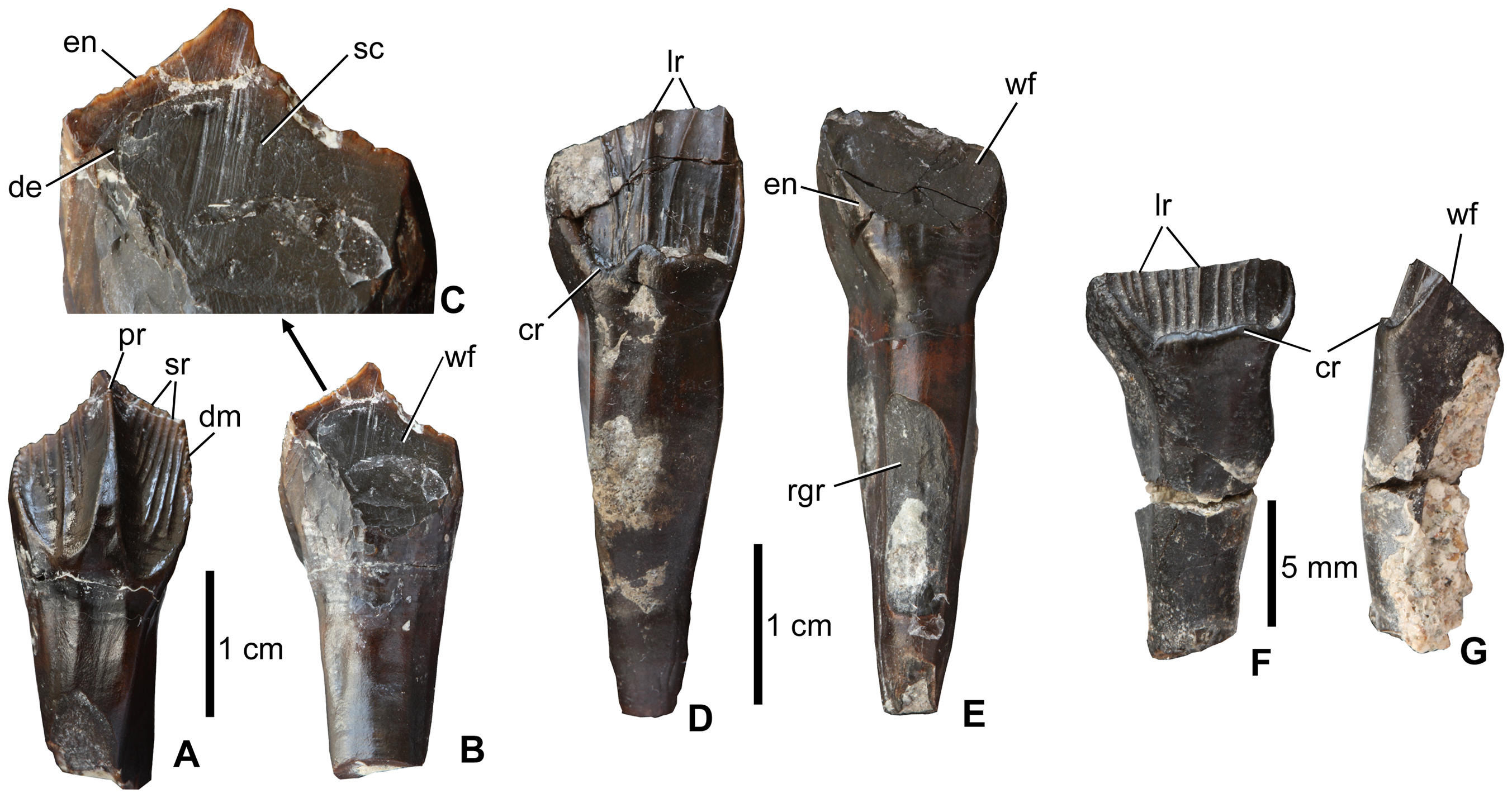 Figure 4: Teeth of Mochlodon vorosi n. sp. from the Upper Cretaceous Csehbánya Formation, Iharkút, western Hungary. A, dentary tooth (MTM 2012.18.1) in lingual, B, labial views, C, details of the labially positioned wear facet. D, maxillary tooth (MTM 2012.17.1) in labial, E, lingual views; F, strongly worn maxillary tooth (MTM 2012.17.1) in labial, G, ?mesial views. Anatomical abbreviations: cr, crenelated ridge; de, dentine, dm, denticulated margin; en, enamel; lr, longitudinal ridge; rgr, groove to accomodate the margin of crown of replacement tooth; pr, primary ridge; sc, scratch; sr, secondary ridge; wf, wear facet.